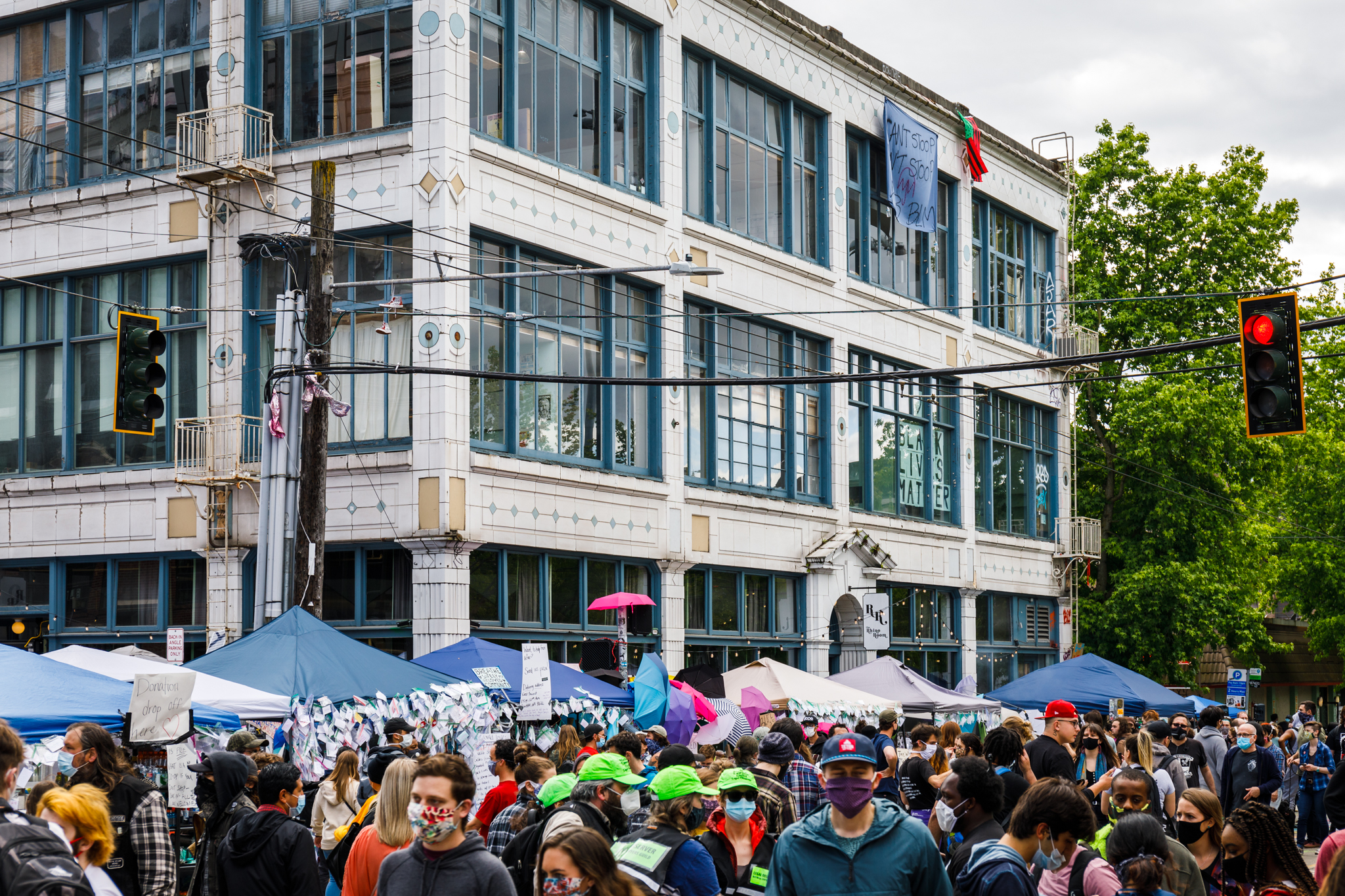 A pop up line of co-ops inside CHAZ / CHOP.